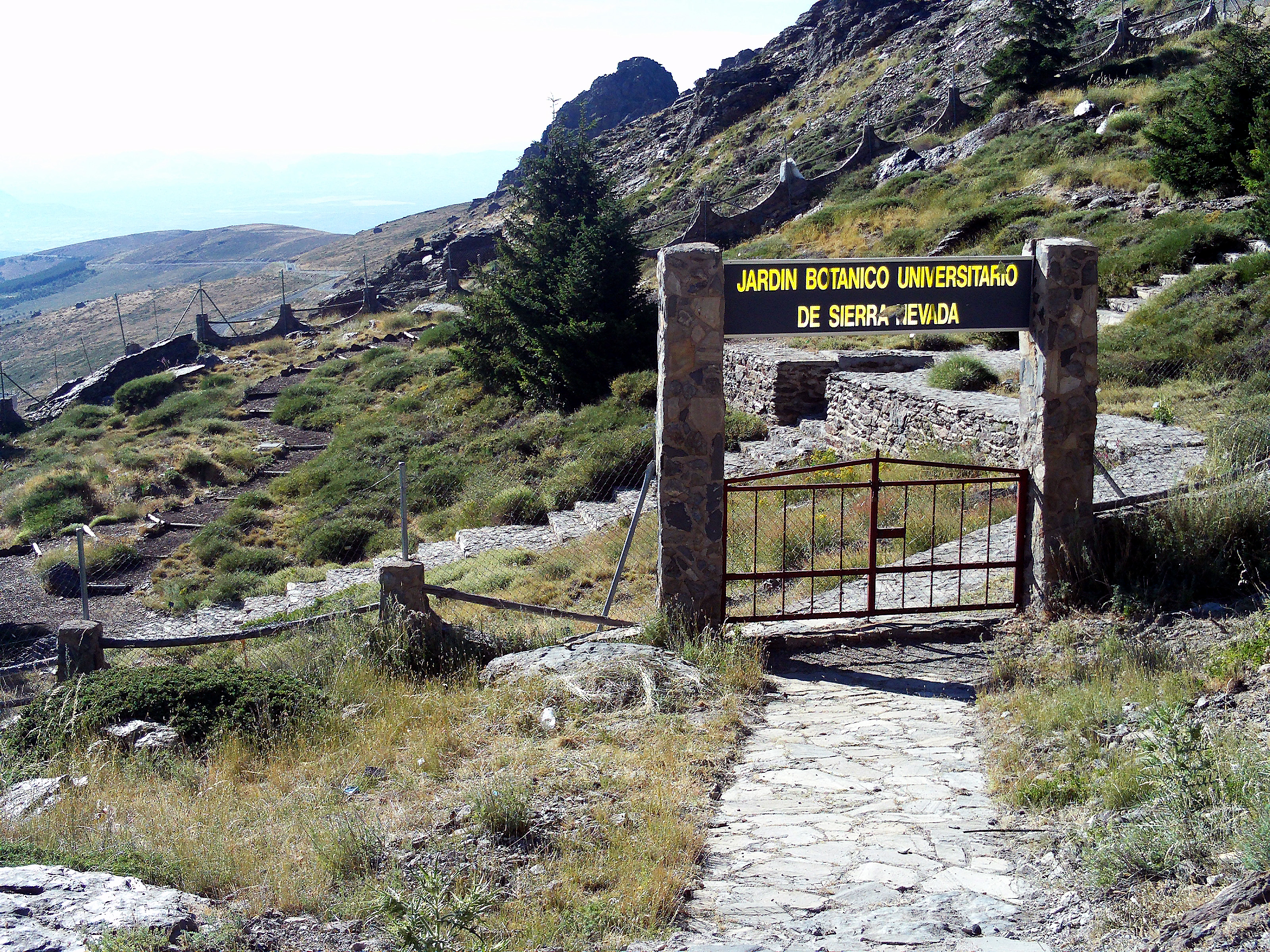 Jardín Botánico de Endemismos de Sierra Nevada, Endemic of Sierra Nevada Botanical Garden, Sierra Nevada, Spain